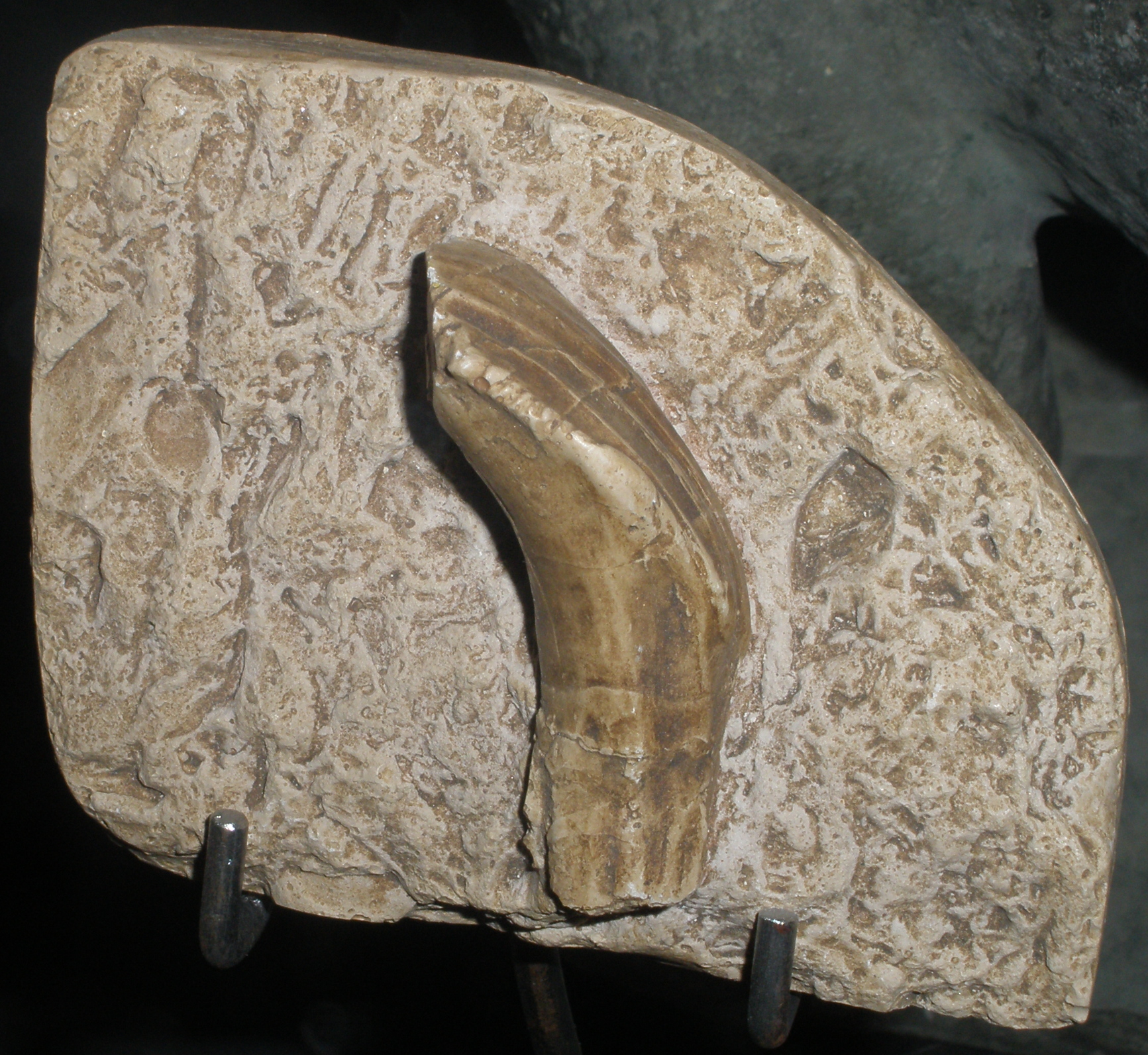 Replica of one of the original Iguanodon teeth, which was found embedded in rock